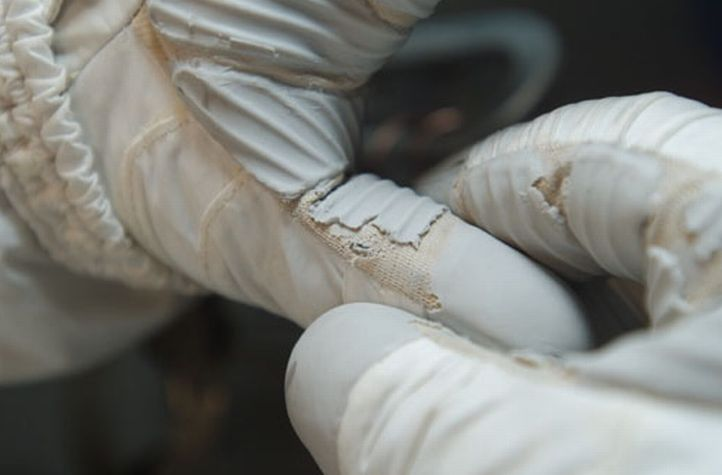 Close up view of an apparent hole found in a glove of astronaut Rick Mastracchio during the third EVA of Mission STS-118. The two astronauts floating outside the International Space Station were forced to cut short the EVA.